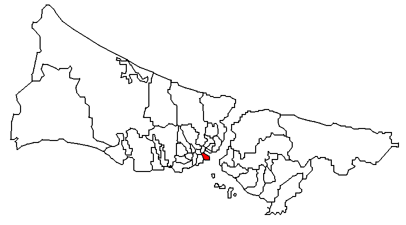 Location of the district of Eminönü on the map of Istanbul